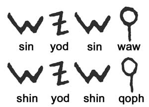 Inscription signs taken from archaeological sources and line drawings of pottery inscriptions. Drawn by David Rohl. Used to illustrate discussion point.